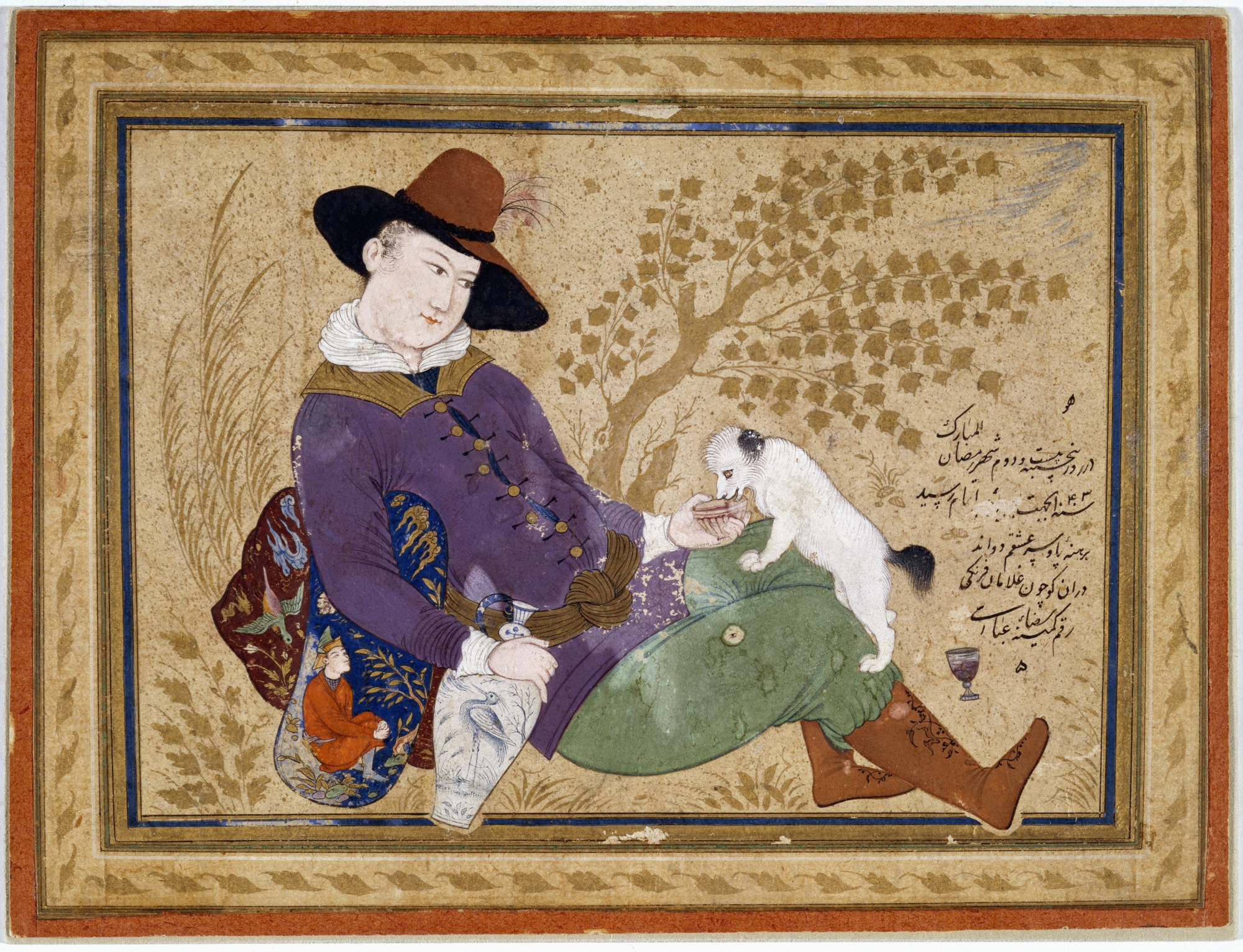 Young Portugese Man, 1634 by Riza-i 'Abbasi Medium: Ink, gold and colors on paper Dimensions: 14.6 x 19.2 cm Institution: Detroit Institute of Arts